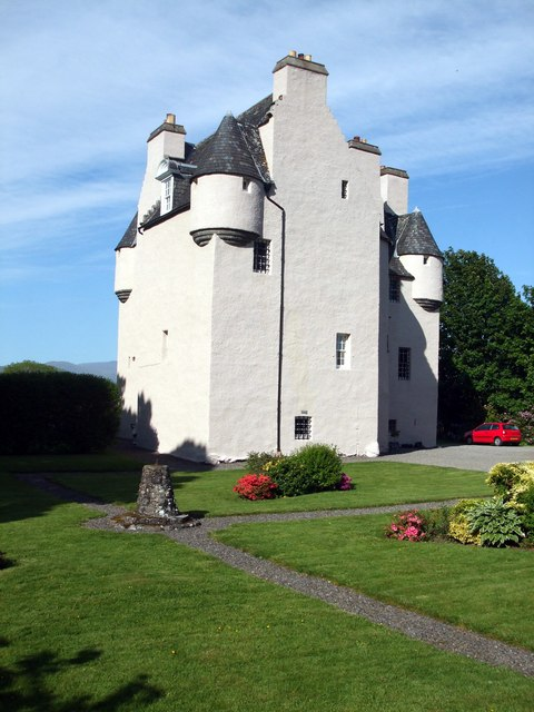 Barcaldine Castle